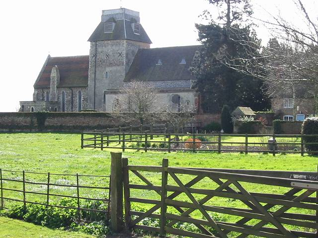 St Mary the Virgin Church, Chislet